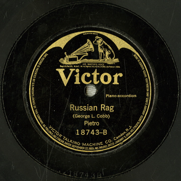 Image of Victor 18743 Side B Russian Rag written by George L. Cobb played by Pietro Deiro.